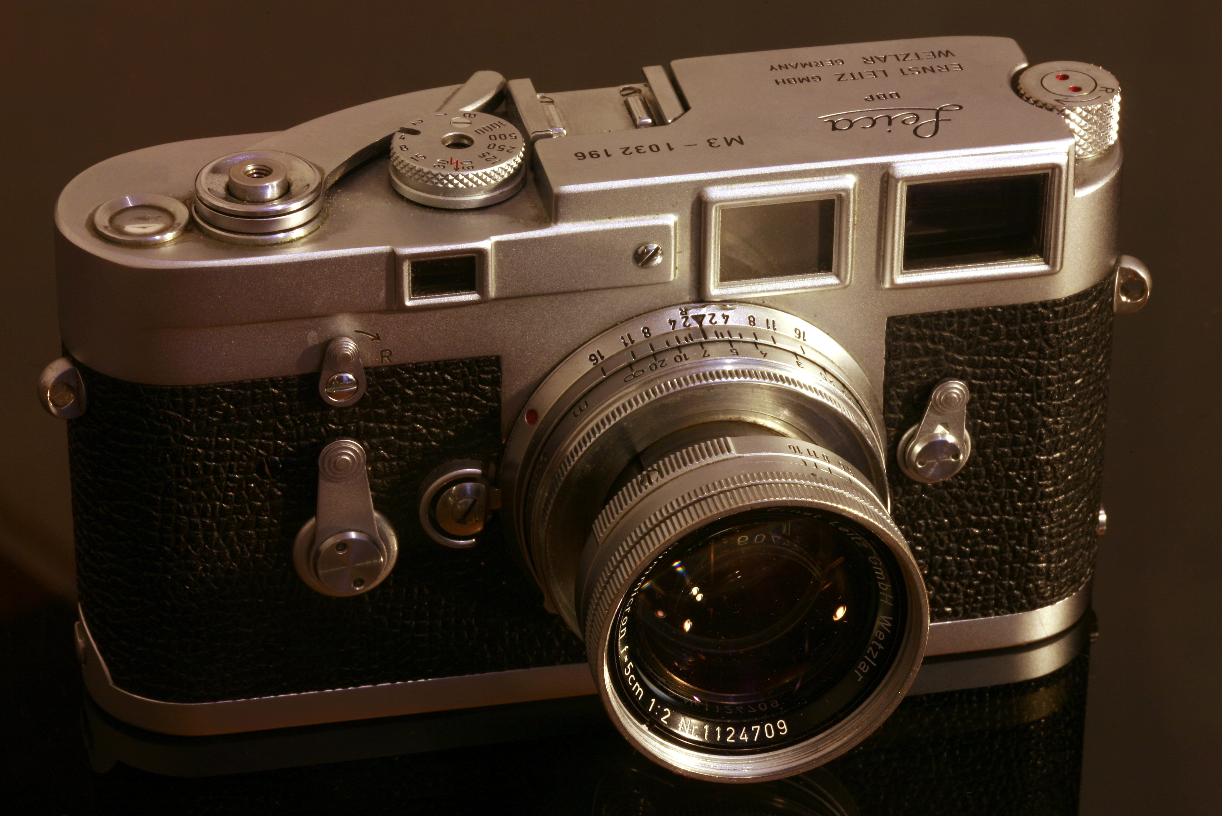 Leica M3 with Summicron 50mm